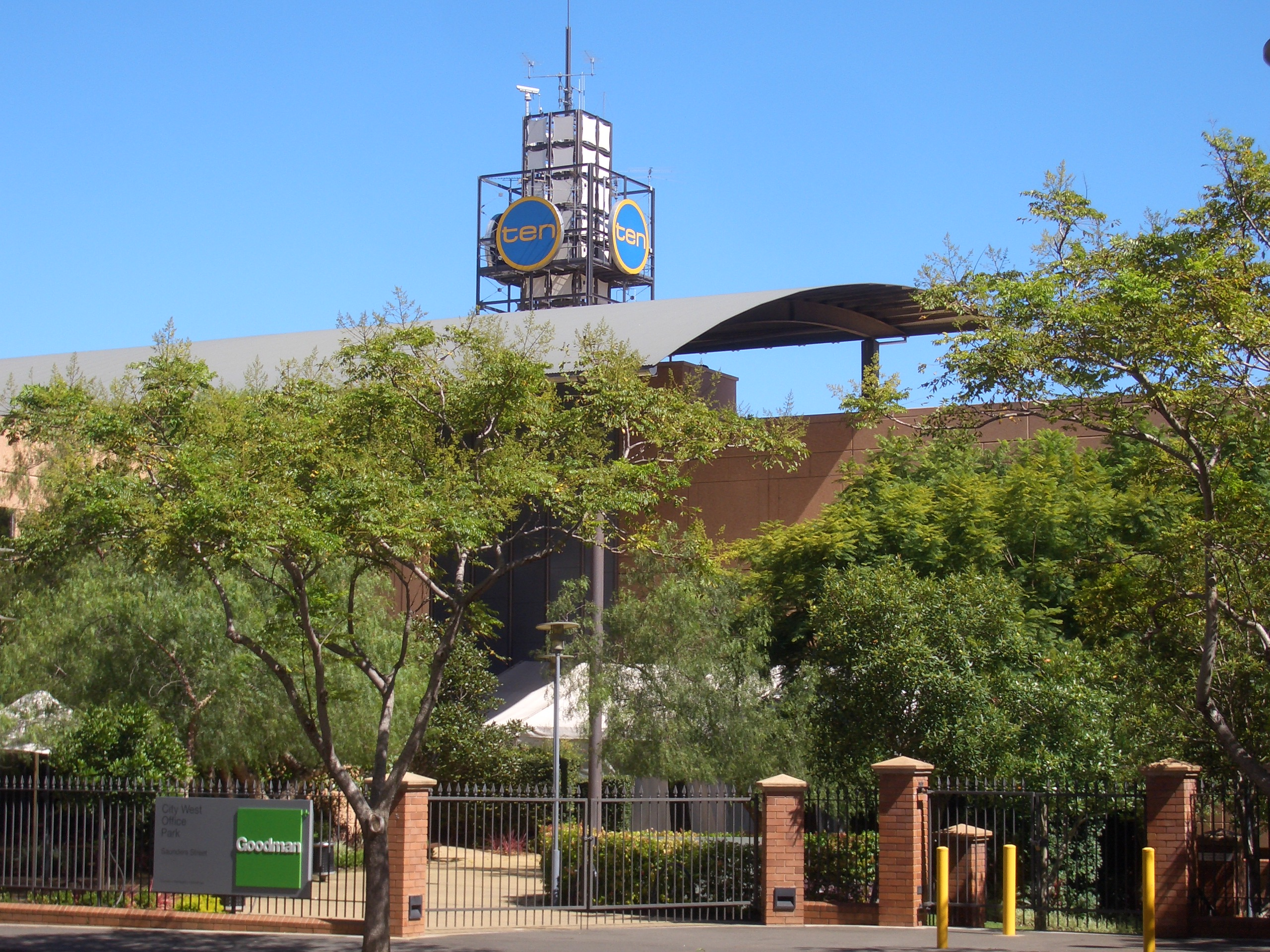 Pyrmont, Channel Ten Studios